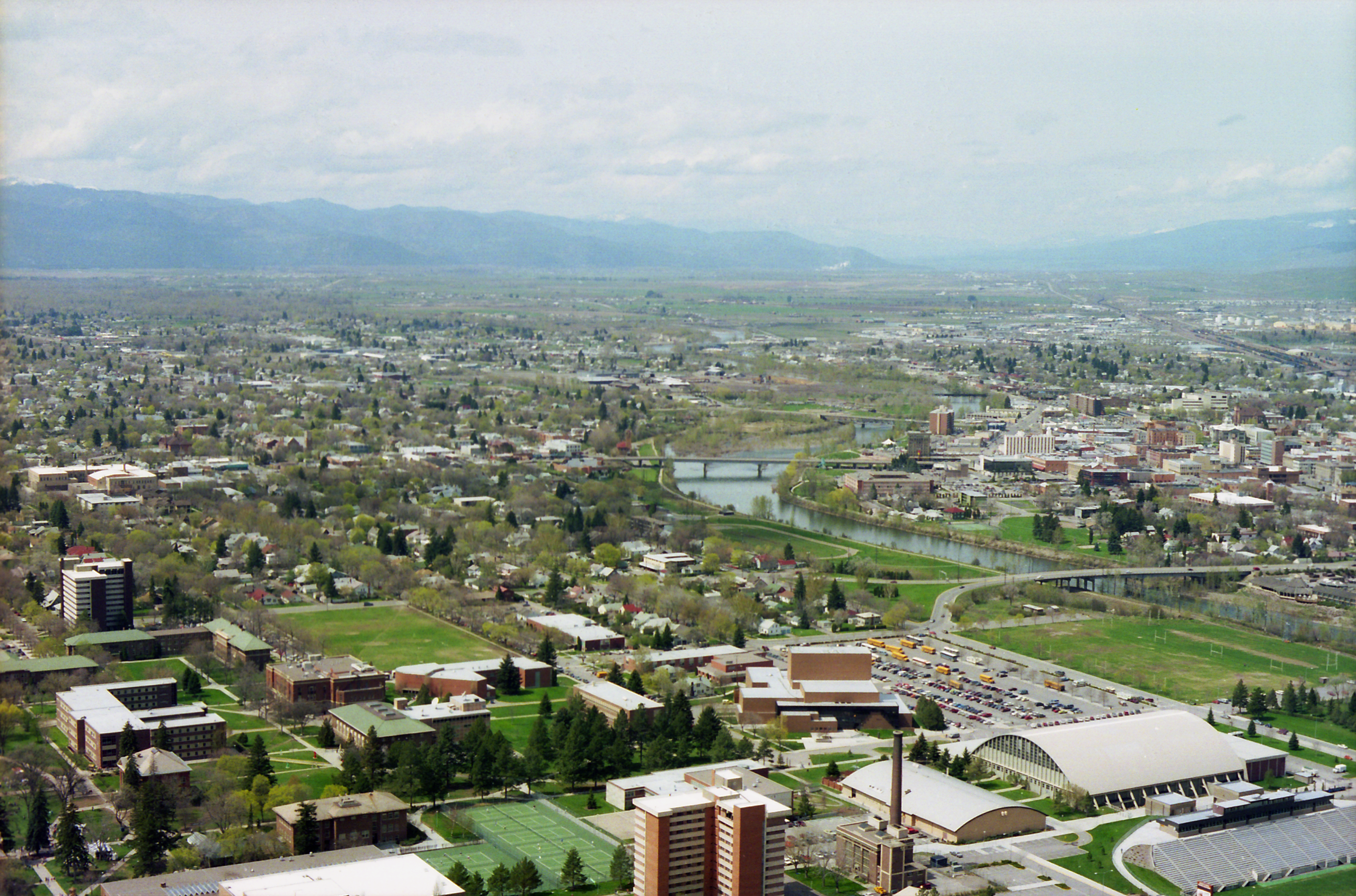 Skyline of Missoula, Montana, USA